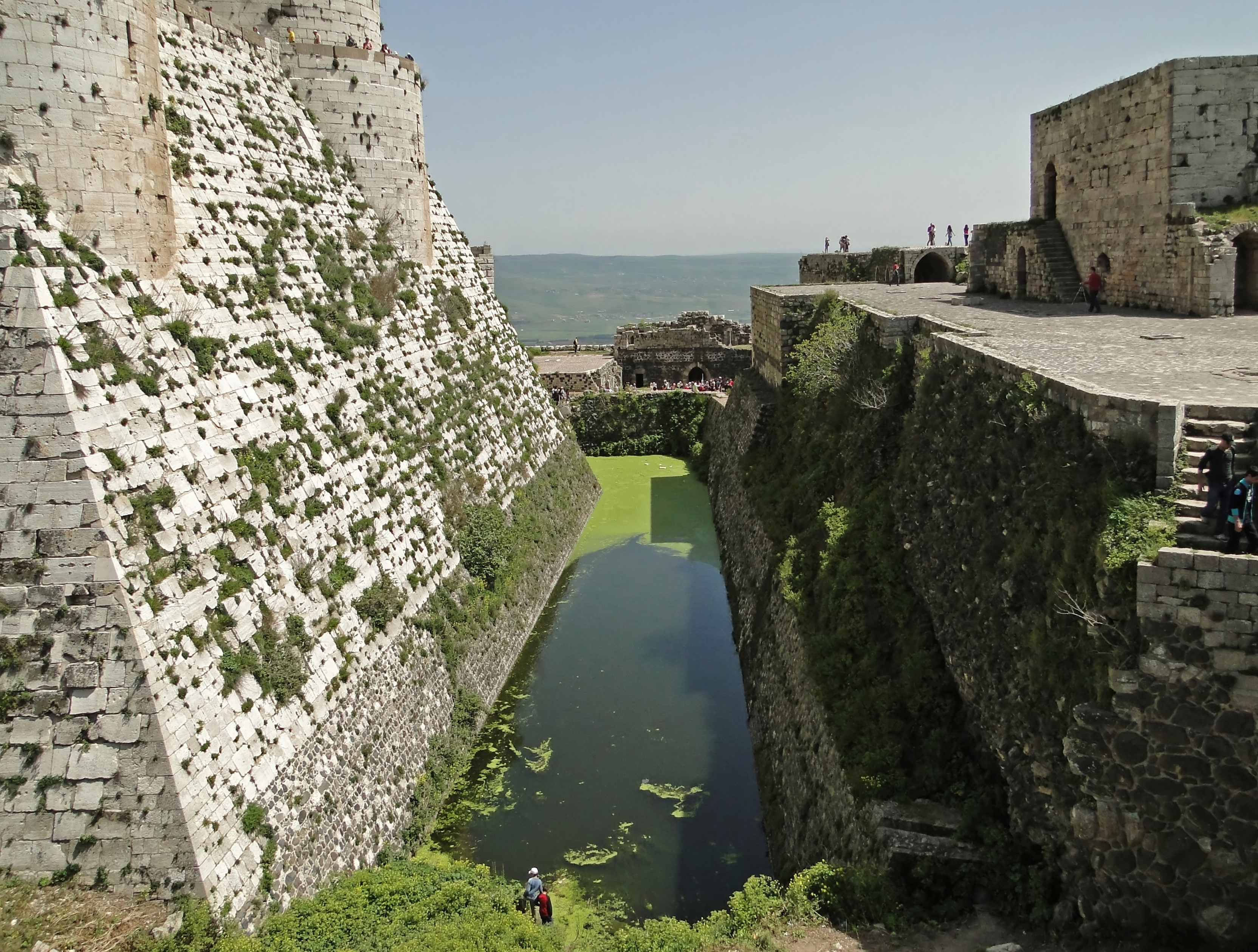 Cistern of Krak des Chevaliers, Syria